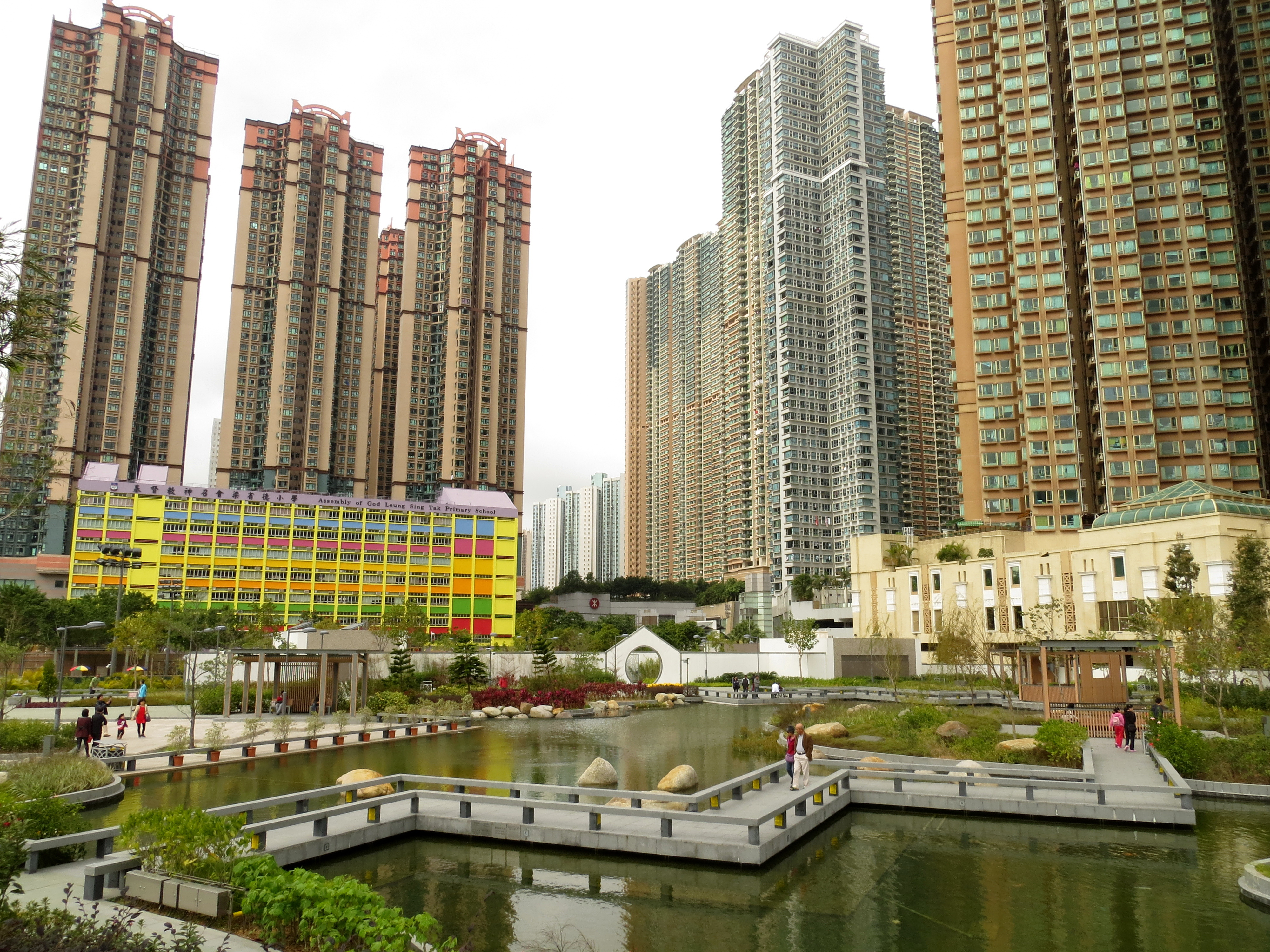 Ponds in the Hang Hau Man Kuk Lane Park, Tseung Kwan O, Hong Kong.